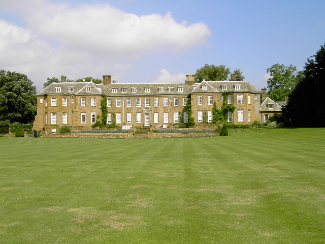 Upton House. This is the "South Front" of Upton House